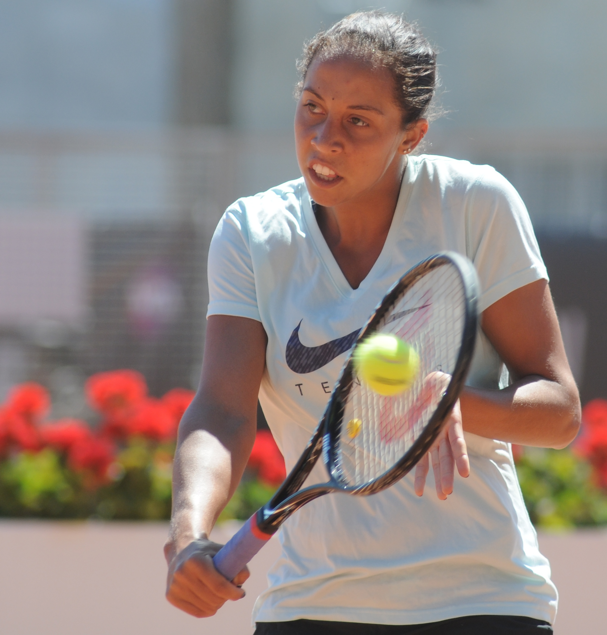 Madison Keys at the 2014 Internazionali BNL d'Italia